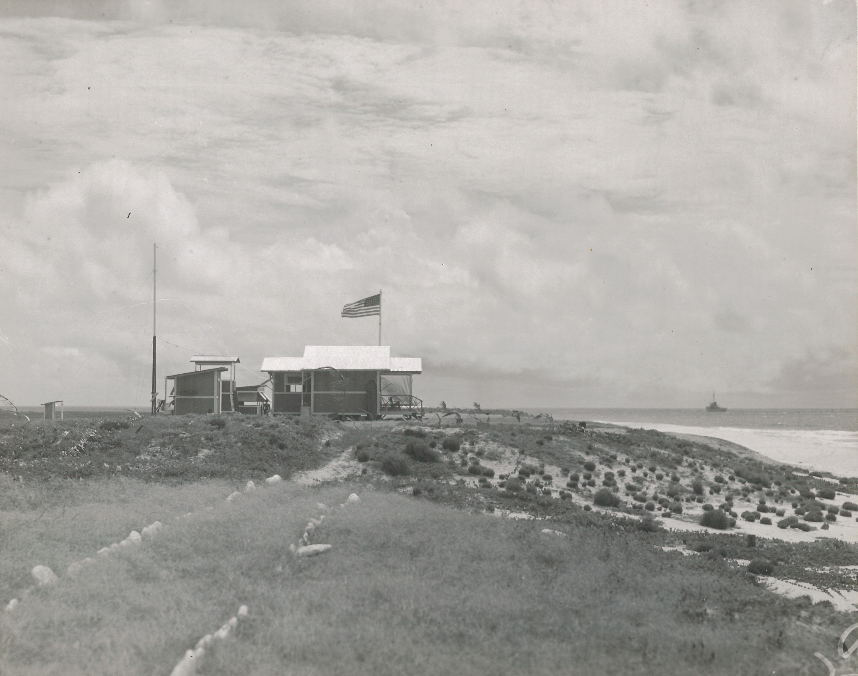 Camp on Baker Island during the American Equatorial Islands Colonization Project.